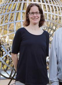 Annette Imhausen * Occasion:RiP2017: Research in Pairs 2017 * Location: Oberwolfach * Author: Ruf, Tatjana (photos provided by Ruf, Tatjana) * Source: MFO * Year: 2017 * Copyright: MFO * Photo ID: 21669